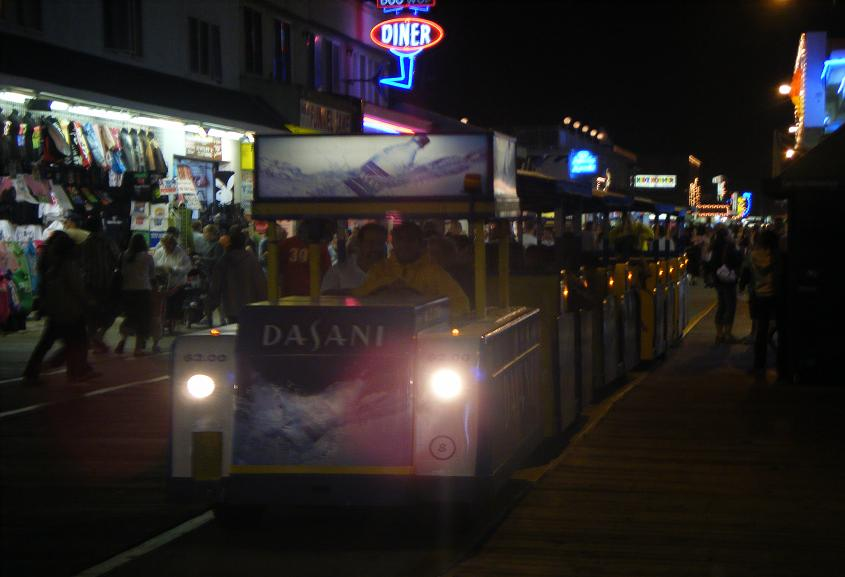 A view of the Tramcar on the Wildwood, New Jersey boardwalk at night at Adventure Pier